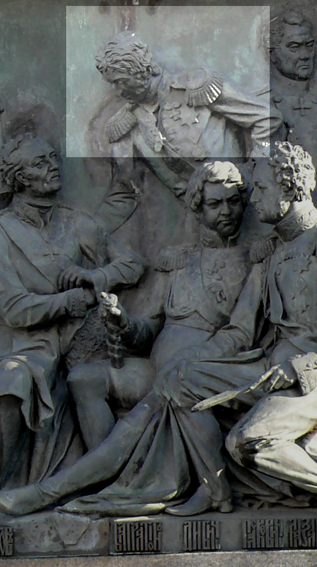 Pyotr Bagration on the Monument «Millennium of Russia» in Veliky Novgorod